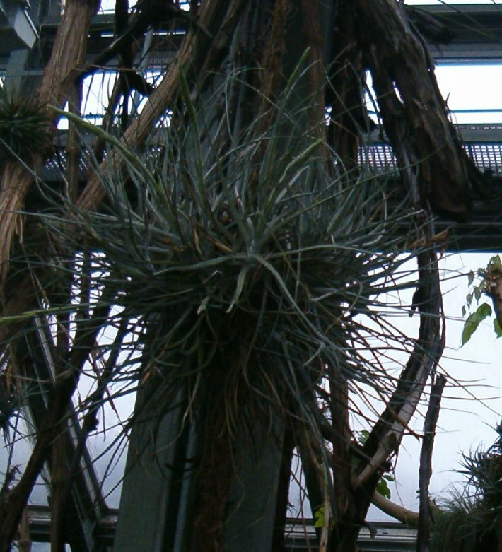 Location: Botanical Gardens Berlin Dahlem